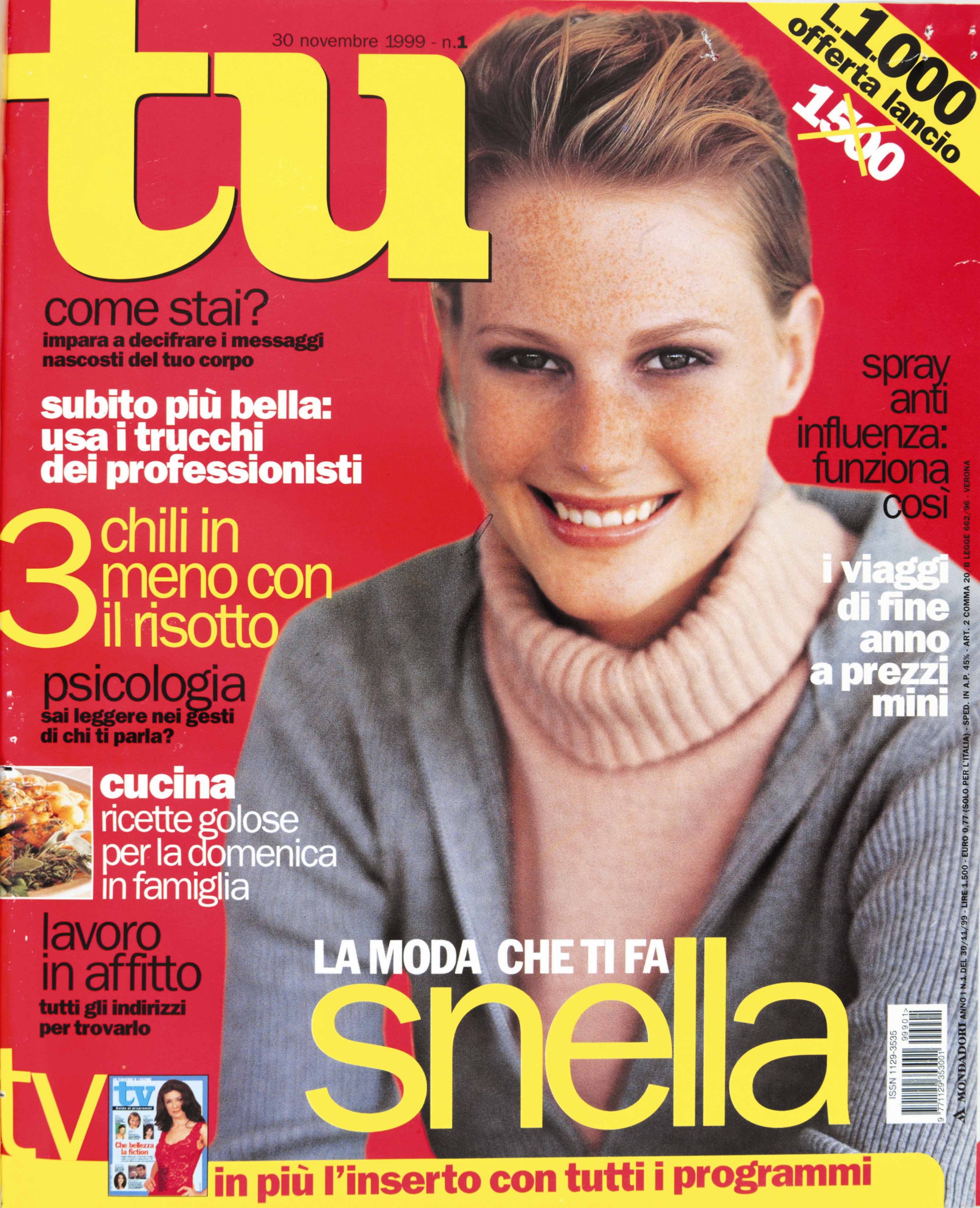 Cover of the first issue of the Italian magazine Tu, 30 November 1999.